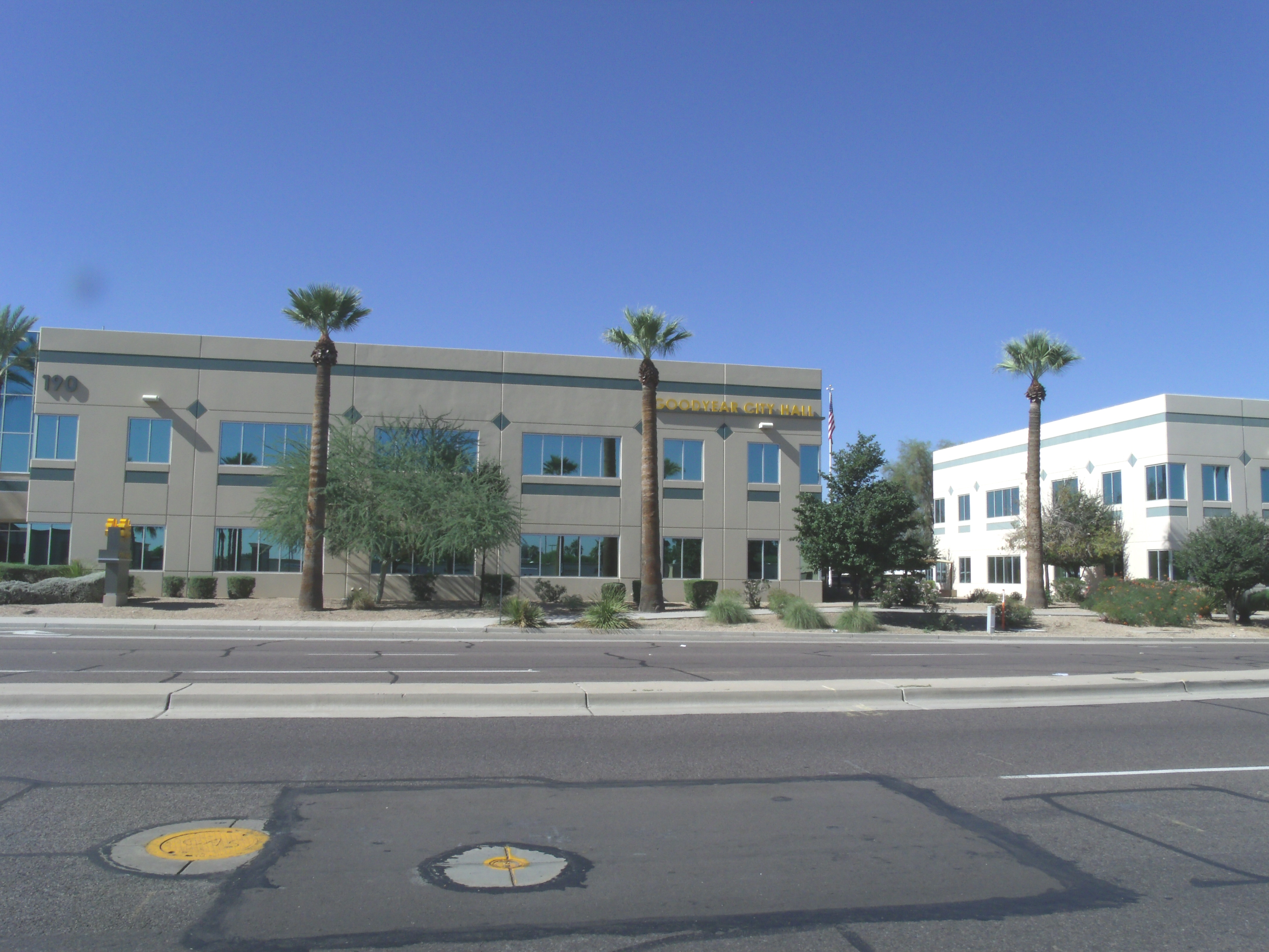 City Hall Building of the town of Goodyear, Arizona